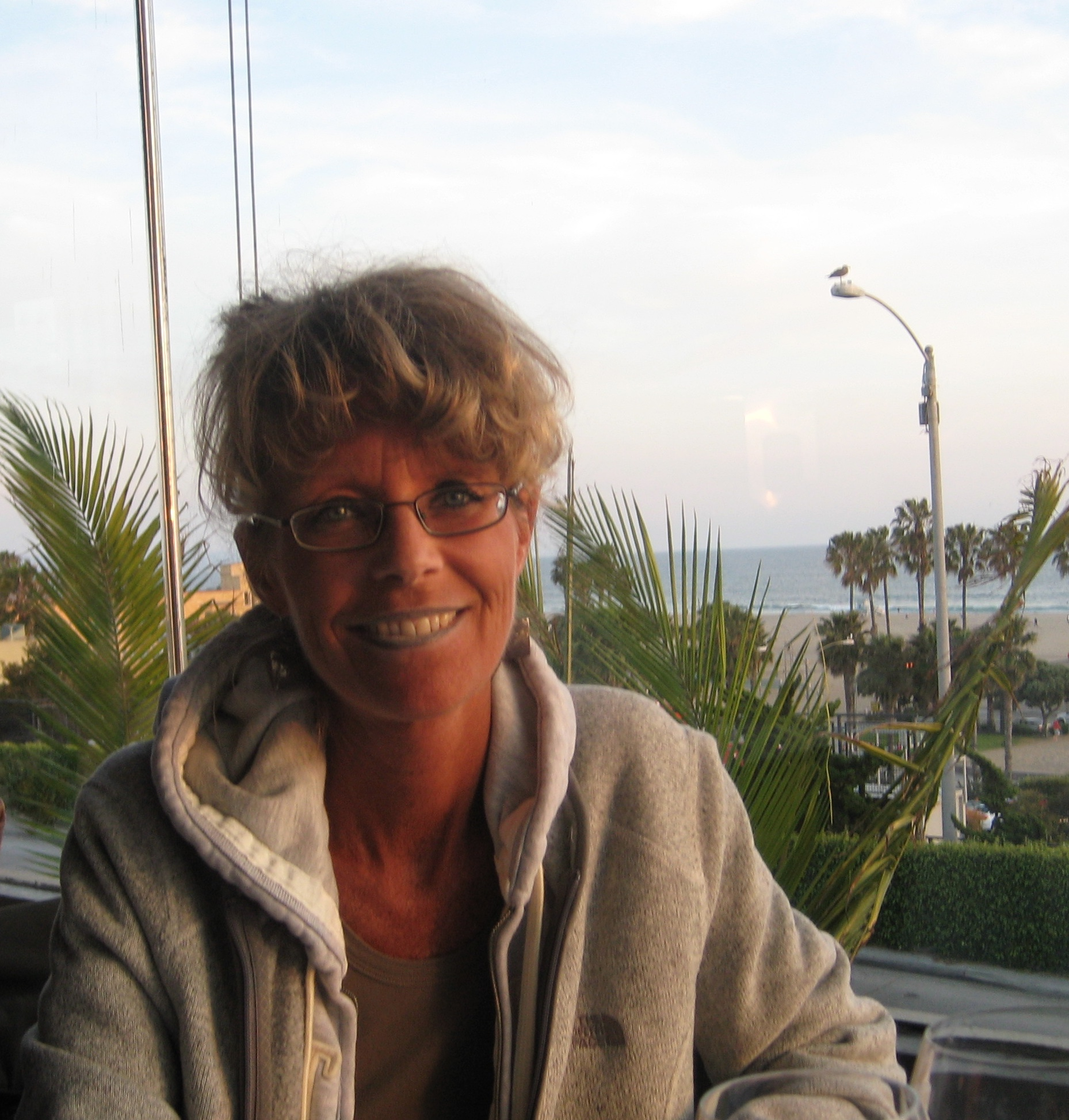 American Geophysical Union (AGU) 2012 Fellow, Earth Science professor and researcher, Janne Blichert-Toft. Dr. Blichert-Toft has been cited "for being the world's leading geochemist in the application of hafnium isotopes to the evolution of the Earth and the early solar system".